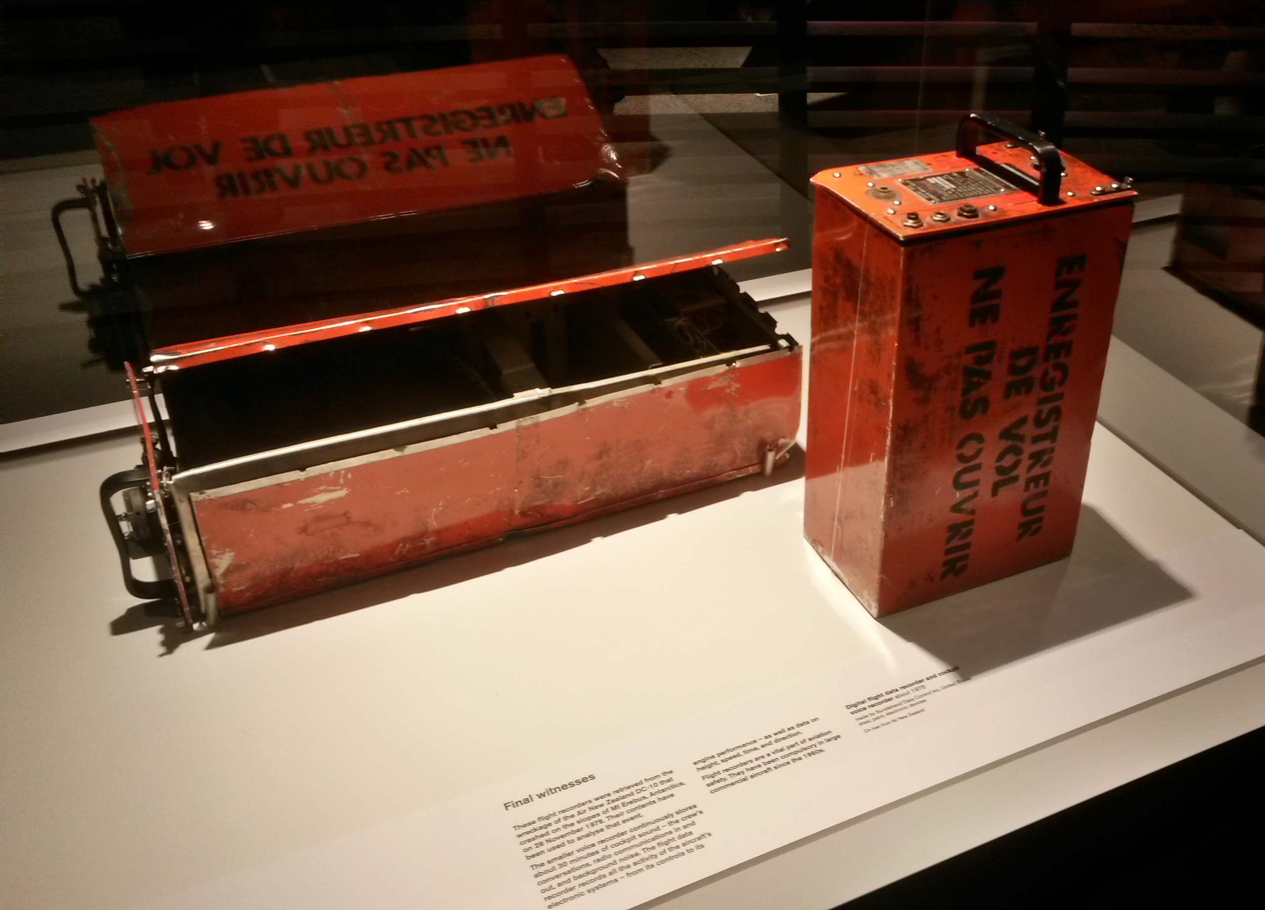 The "Black Box" (flight data recorder and cockpit voice recorder) of Air New Zealand Flight 901 on display at the Air New Zealand exhibition at the Te Papa Museum in Wellington.